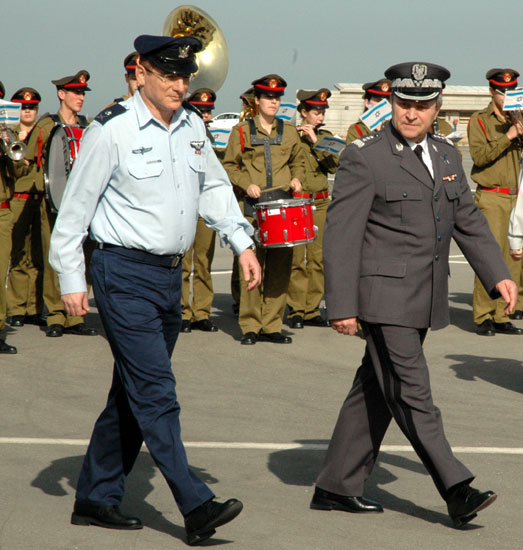 Poland’s air force commander, Lt. Gen. Stanislaw Targosz and his entourage visited IAF’s air bases, accompanied by IAF commander, Maj. Gen. Shkedi.